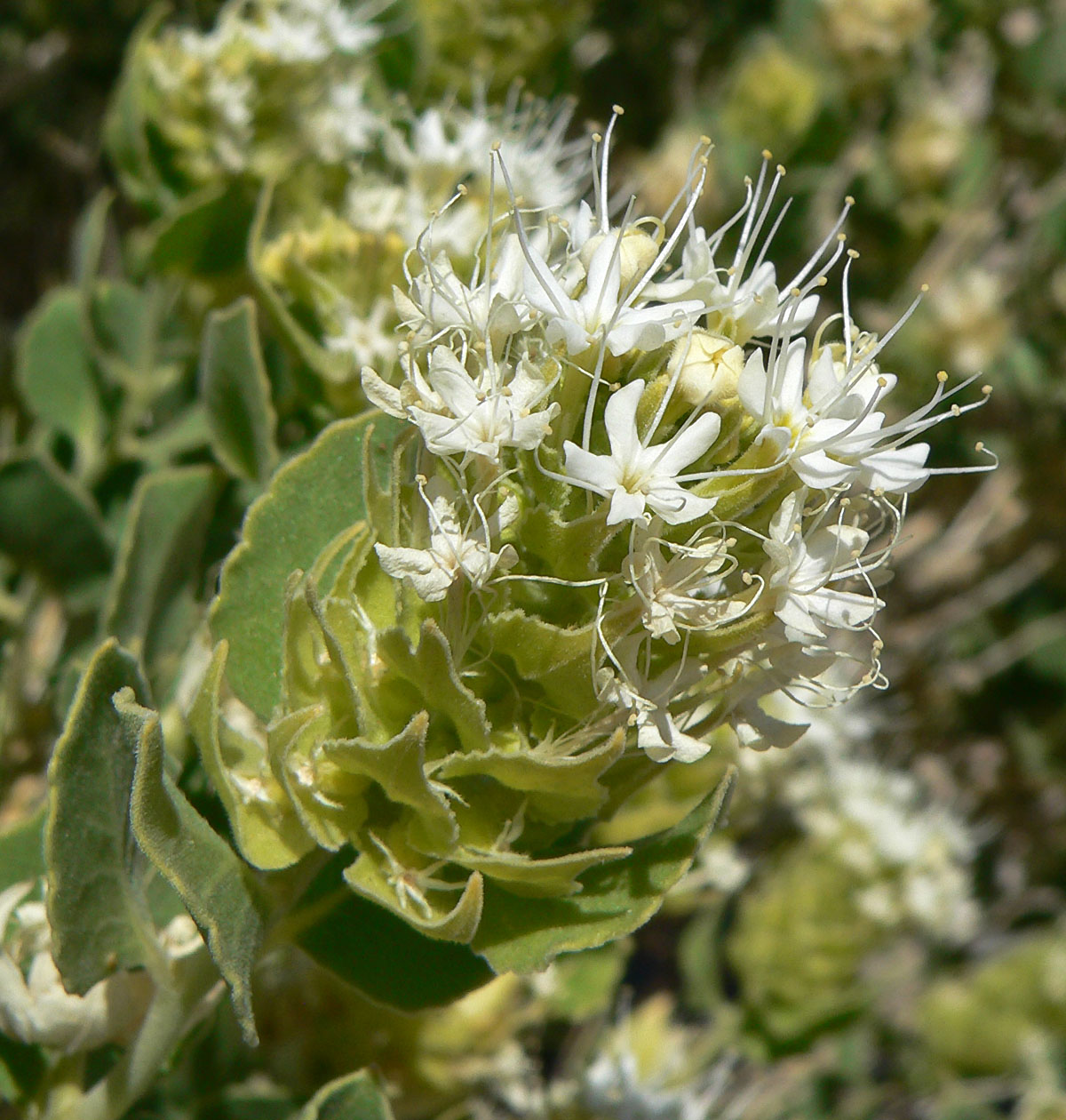 Petalonyx parryi near the Hidden Valley Road south of Moapa, close to Interstate 15 exit 88, southern Nevada